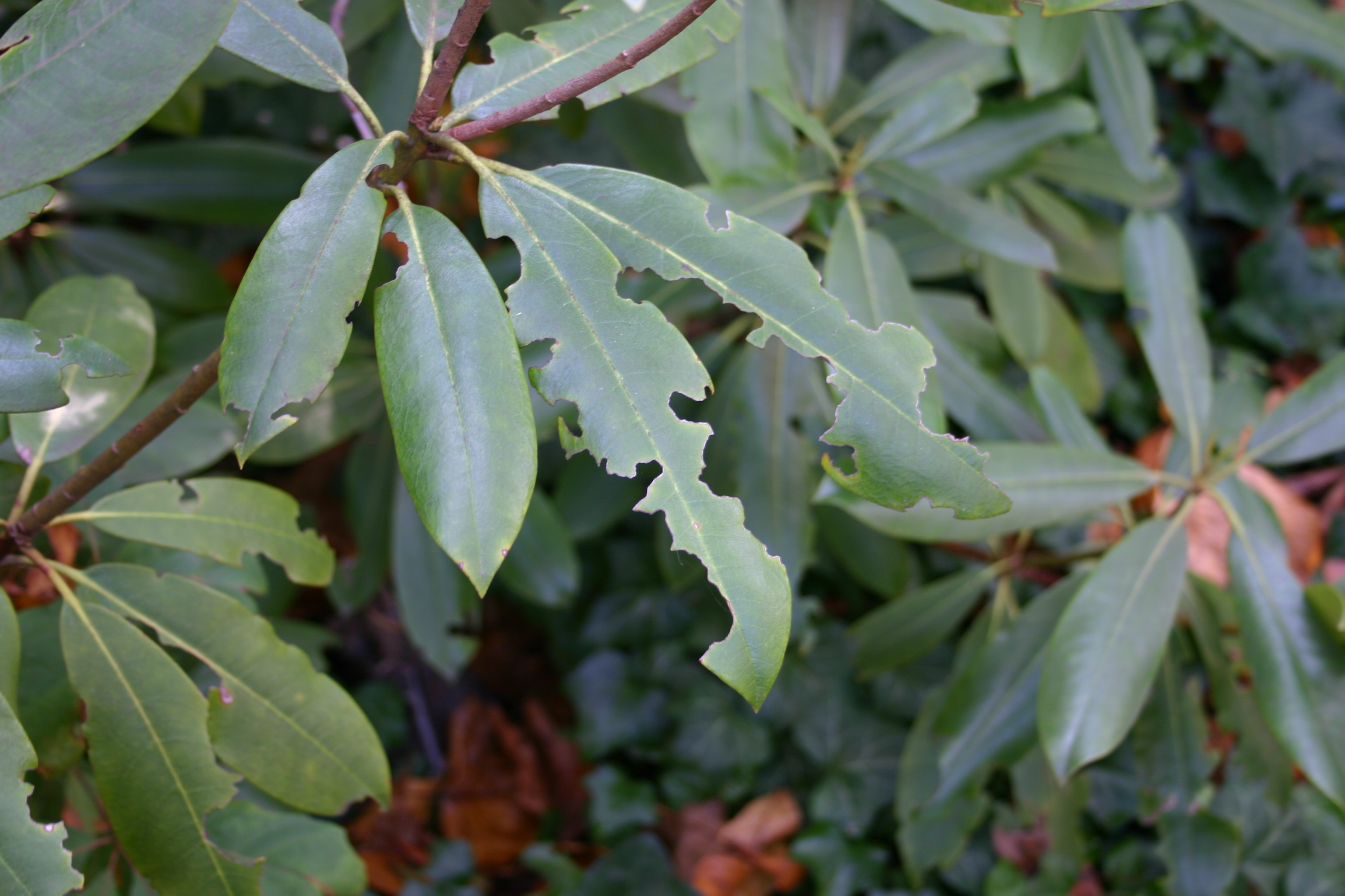 Damage to leaf margins of Rhododendron maximum by Otiorhynchus sulcatus